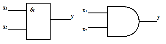 AND-Logic scheme